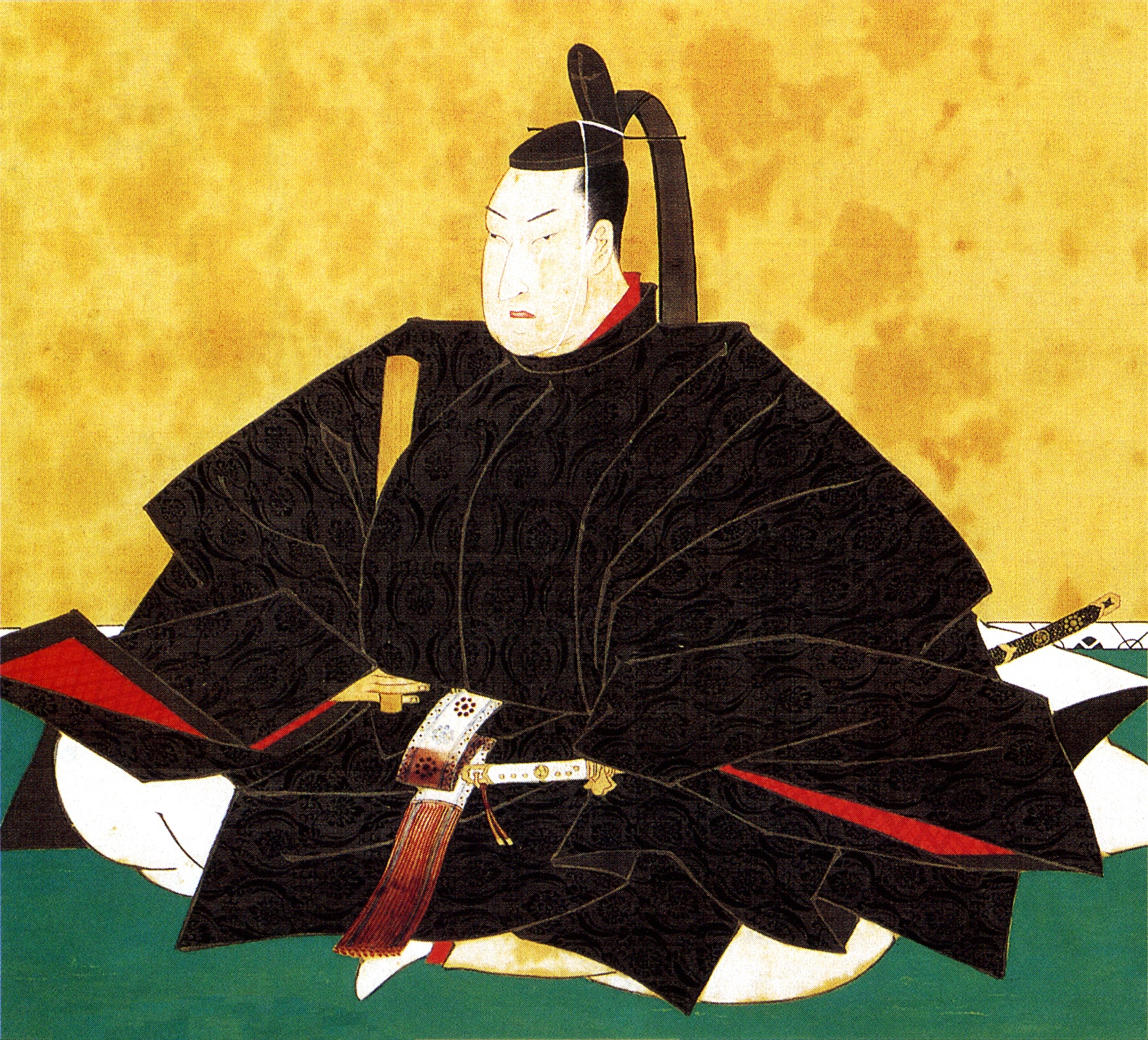 Portrait of Tokugawa Tsunayoshi (owned by the Tokugawa Art Museum)